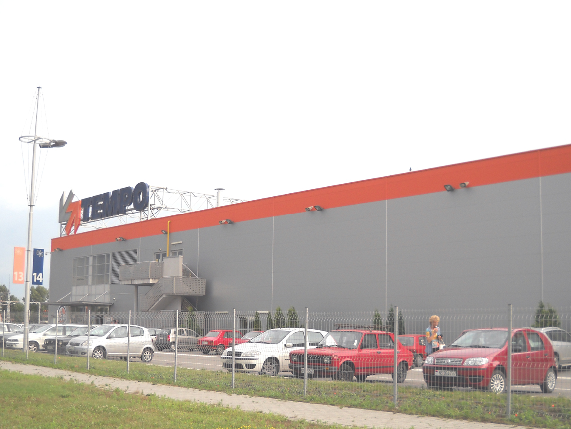 Tempo supermarket in Podbara neighborhood in Novi Sad.